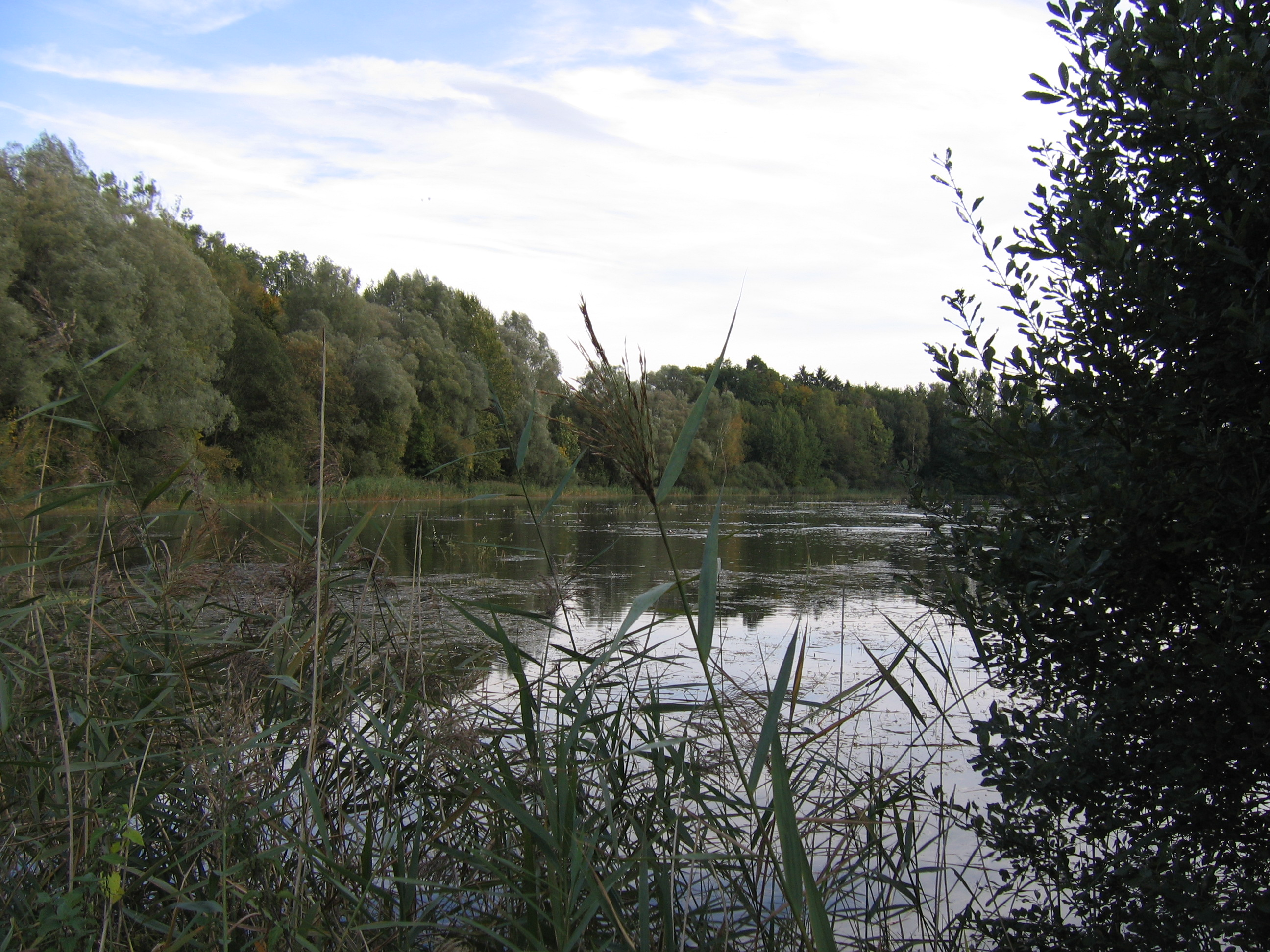 Germany - Baden-Württemberg - Bodenseekreis - Uhldingen-Mühlhofen: 'Egelsee' (= lake Egel)